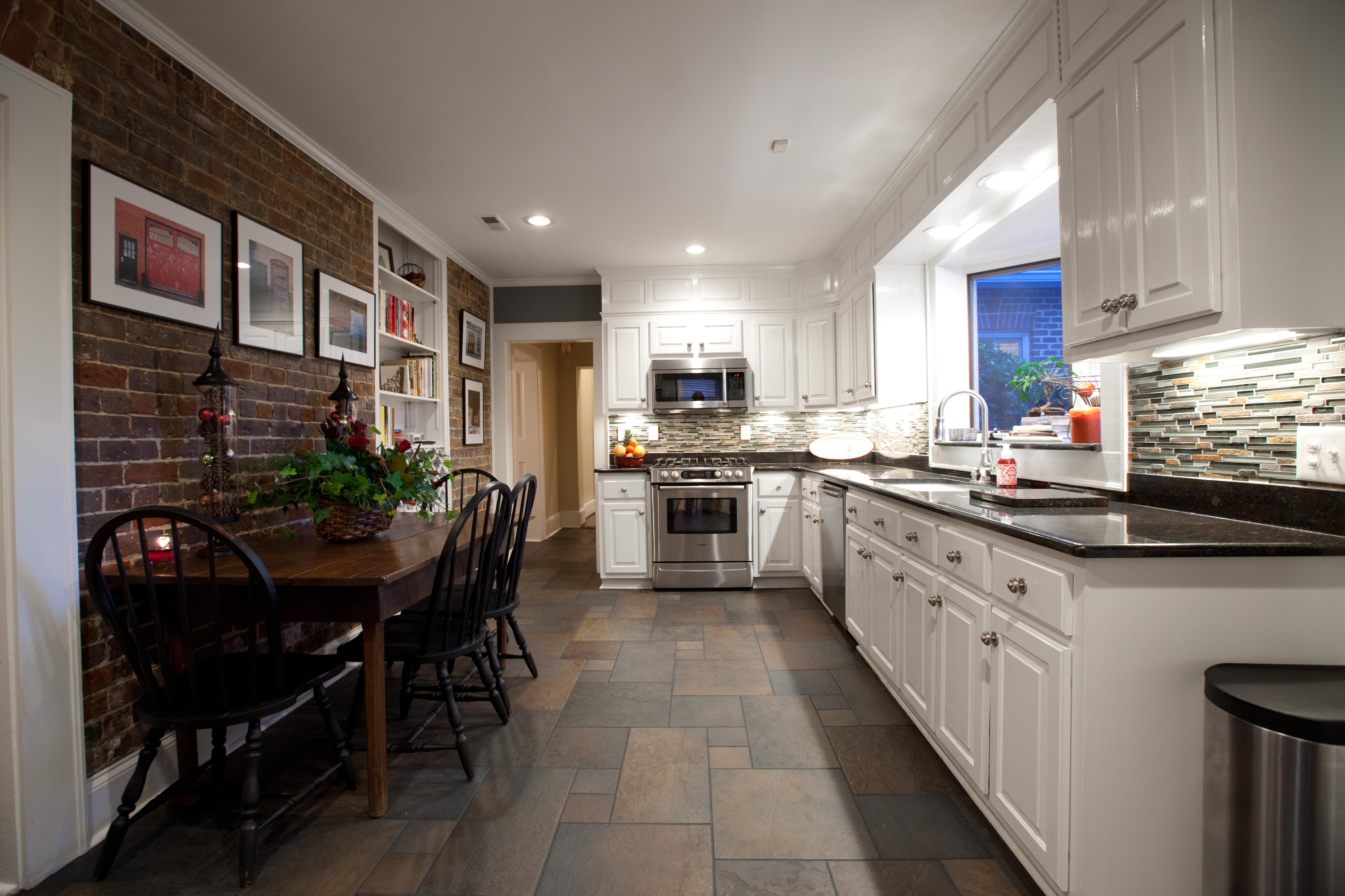 Kitchen - Harvest Home tour